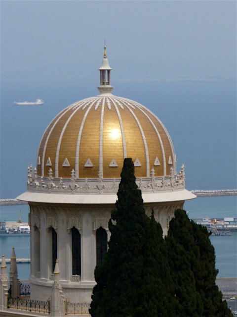 The renewed golden roof of the Bahula'sShrine, view from the promenade Louis e